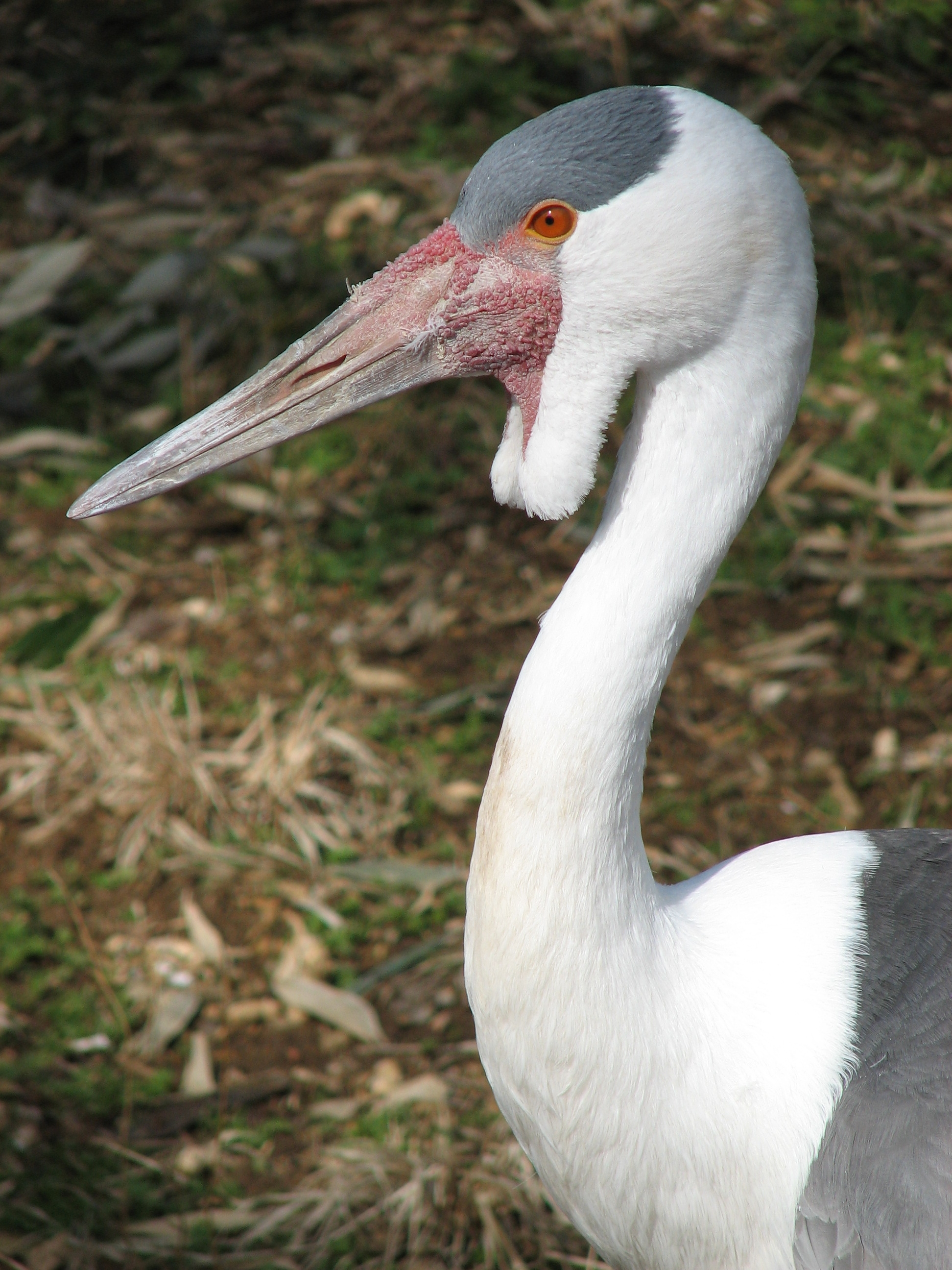 Wattled Crane (Bugeranus carunculatus) at the Louisville Zoo